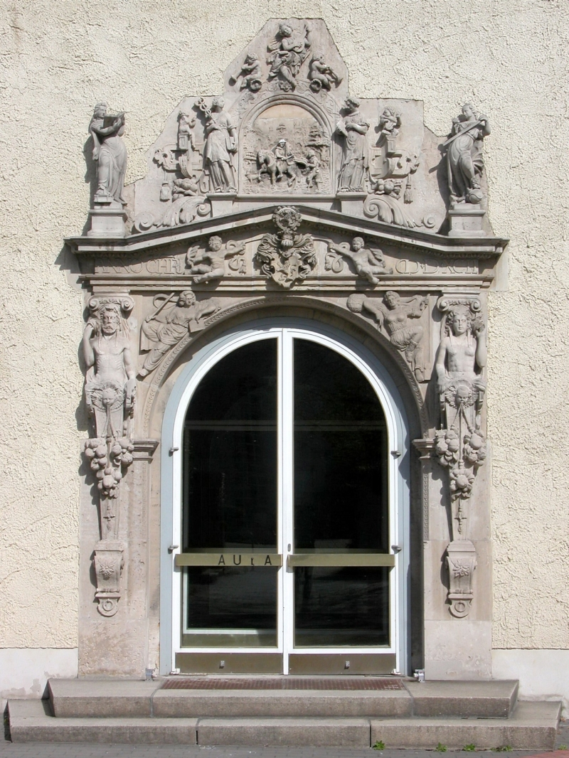 Braunschweig, Germany: Martin’s Portal of Martino-Katharineum secondary school.